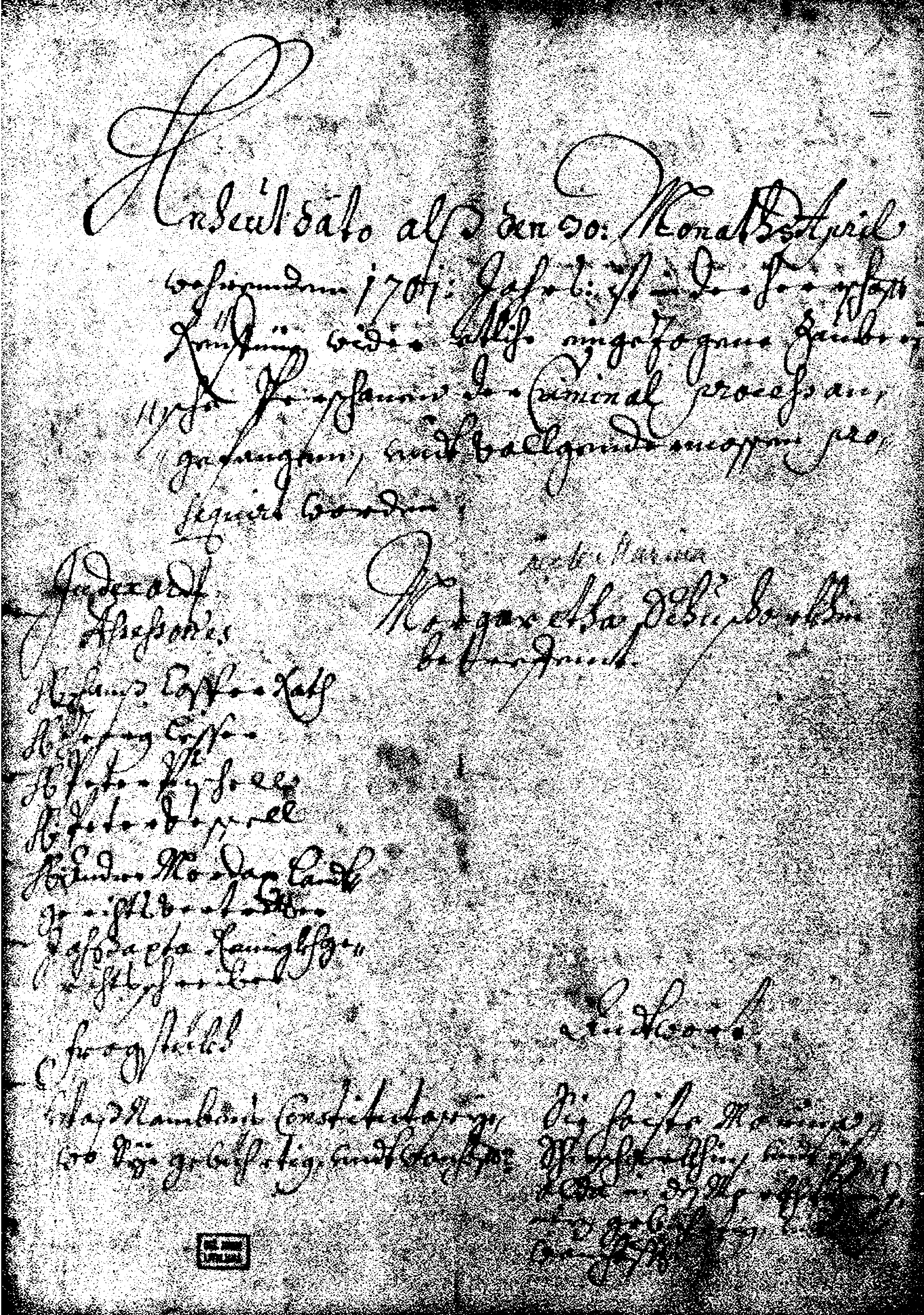 Minutes written during the Witch trial against Marina Shusarkova, dated 4/30/1701, landlord Ribnica, Slovenia. Page 1/32.